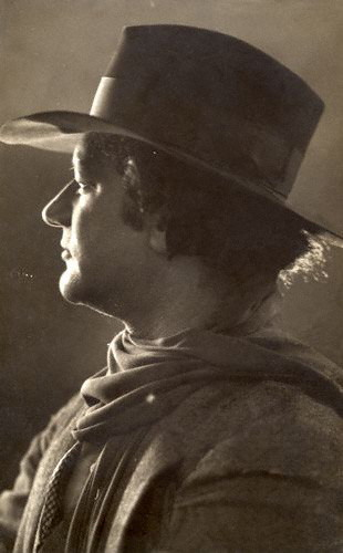 Jacob Epstein